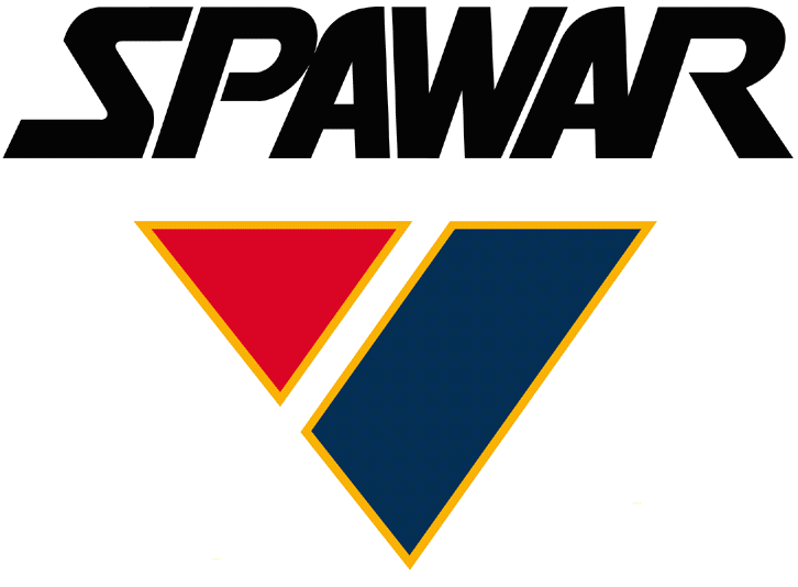 Logo of the Space and Naval Warfare Systems Command